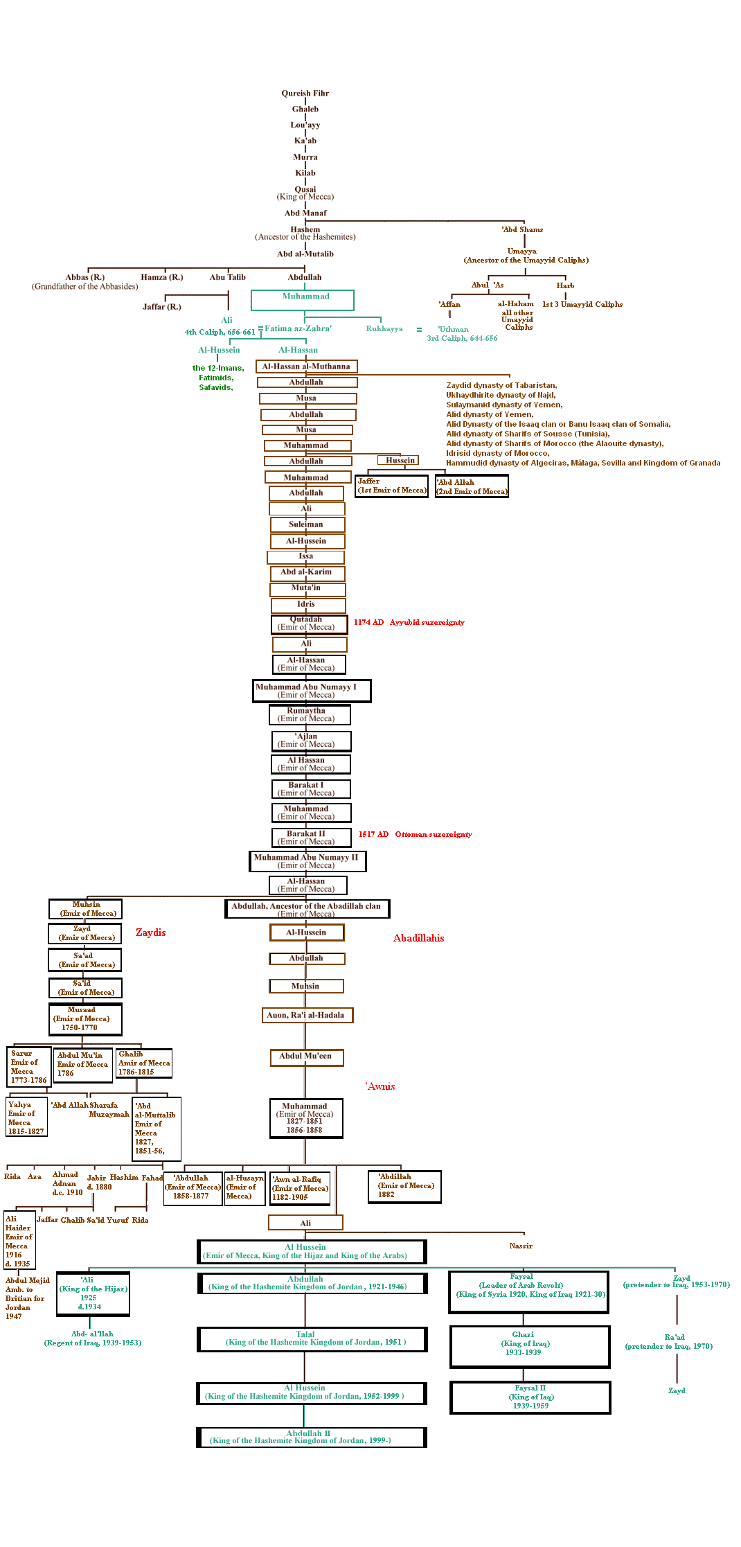 The descent of the Hashemites from Mohammed the Prophet.